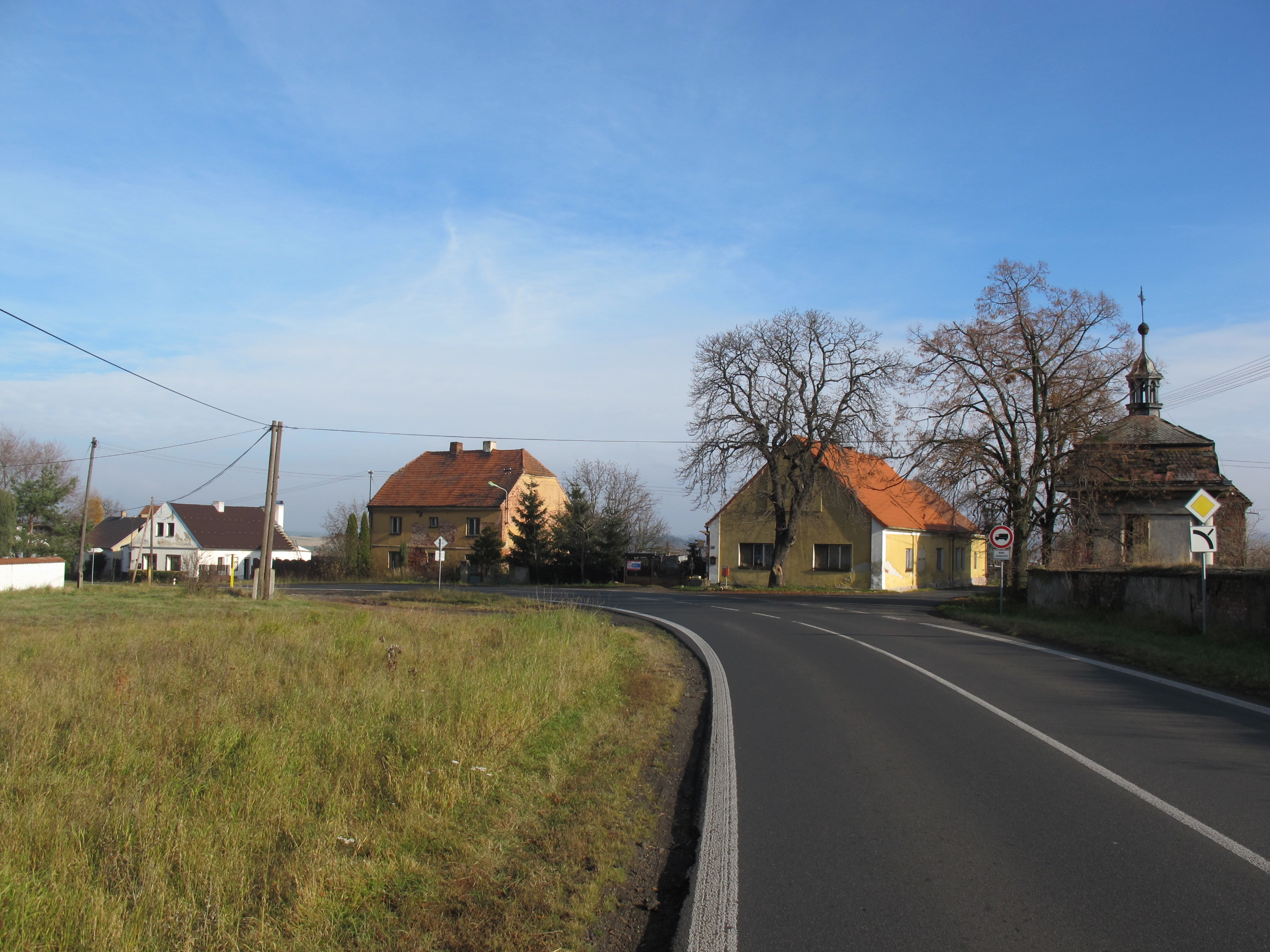 Village square in Lužec